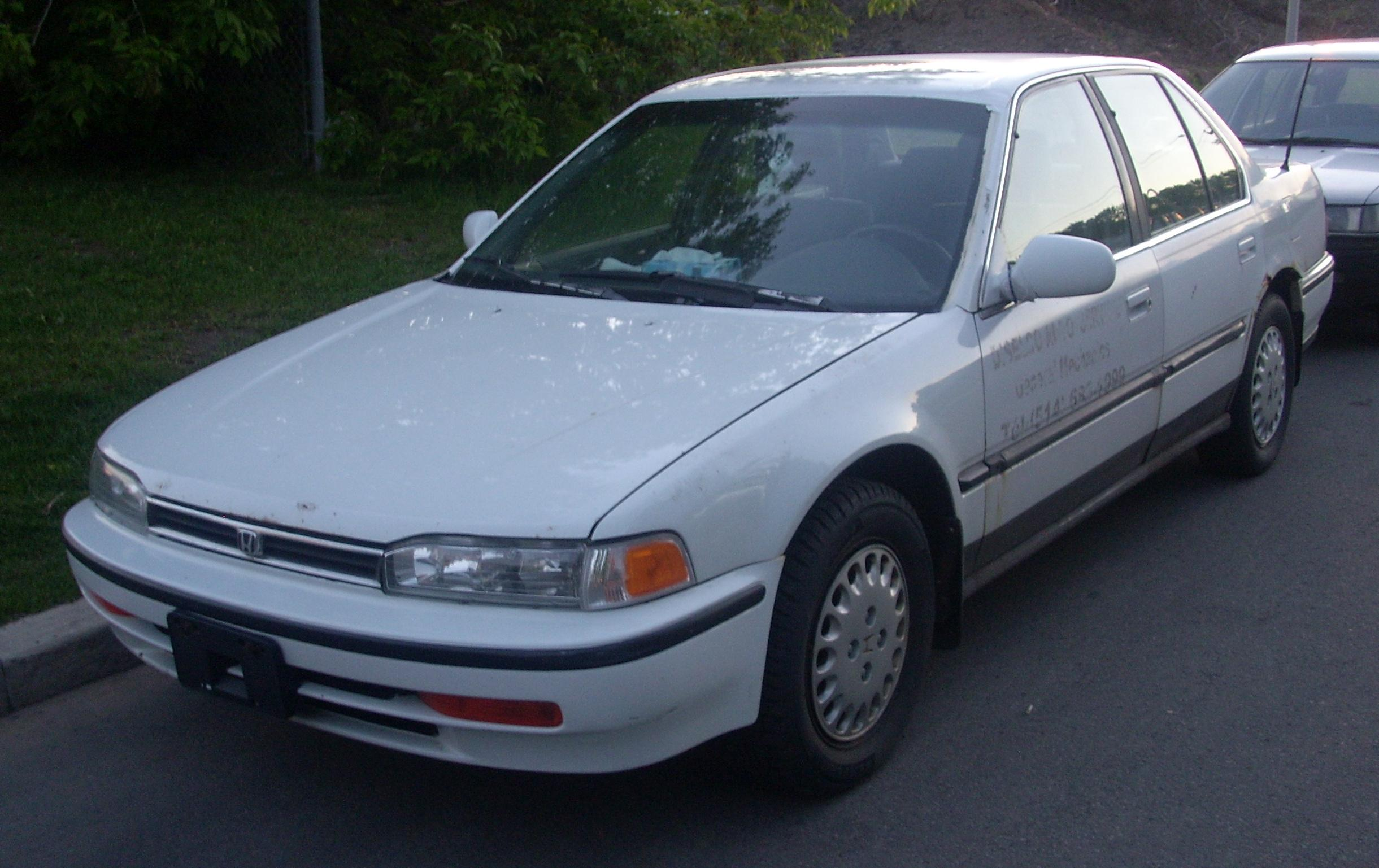 1992-1993 Honda Accord photographed in Montreal, Quebec, Canada.